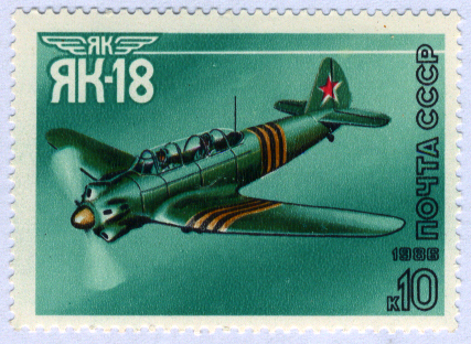 Yak-18 tandem two-seat aircraft of the USSR, 1946. Commemorated on the 1986 USSR stamp (number 5782 in the Soviet catalogue).